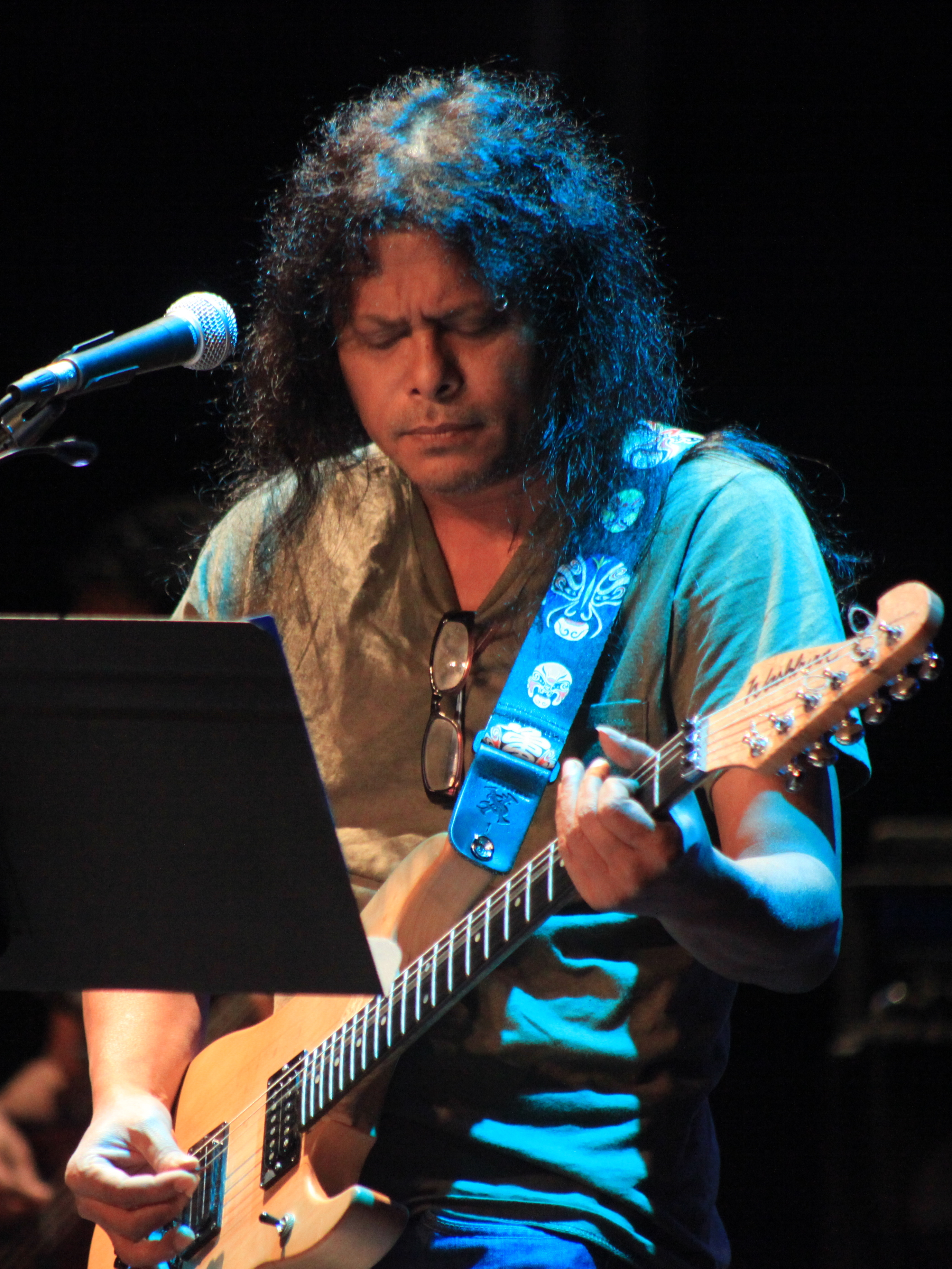 James performed in San Francisco Bay Area on Sep 21, 2013